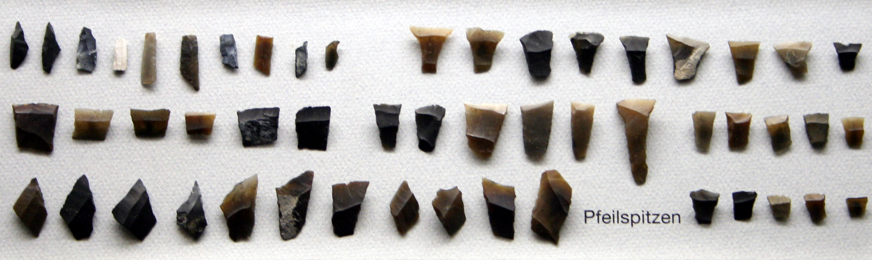 Archaeological state museum Schleswig-Holstein, Gottorf Castle